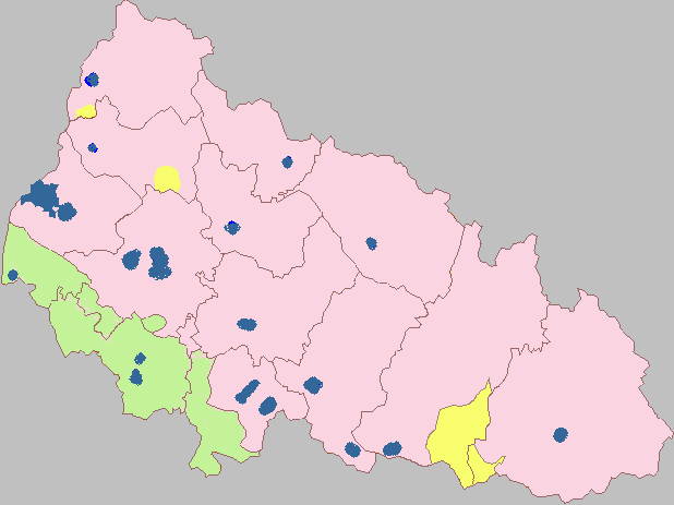 Ethnic map of Zakarpattia Oblast in 2001. Ukrainians (incl. Rusyns) Hungarians Romanians mixed Ukrainians (incl. Rusyns) and Russians Note: The Roma are not represented in the map.